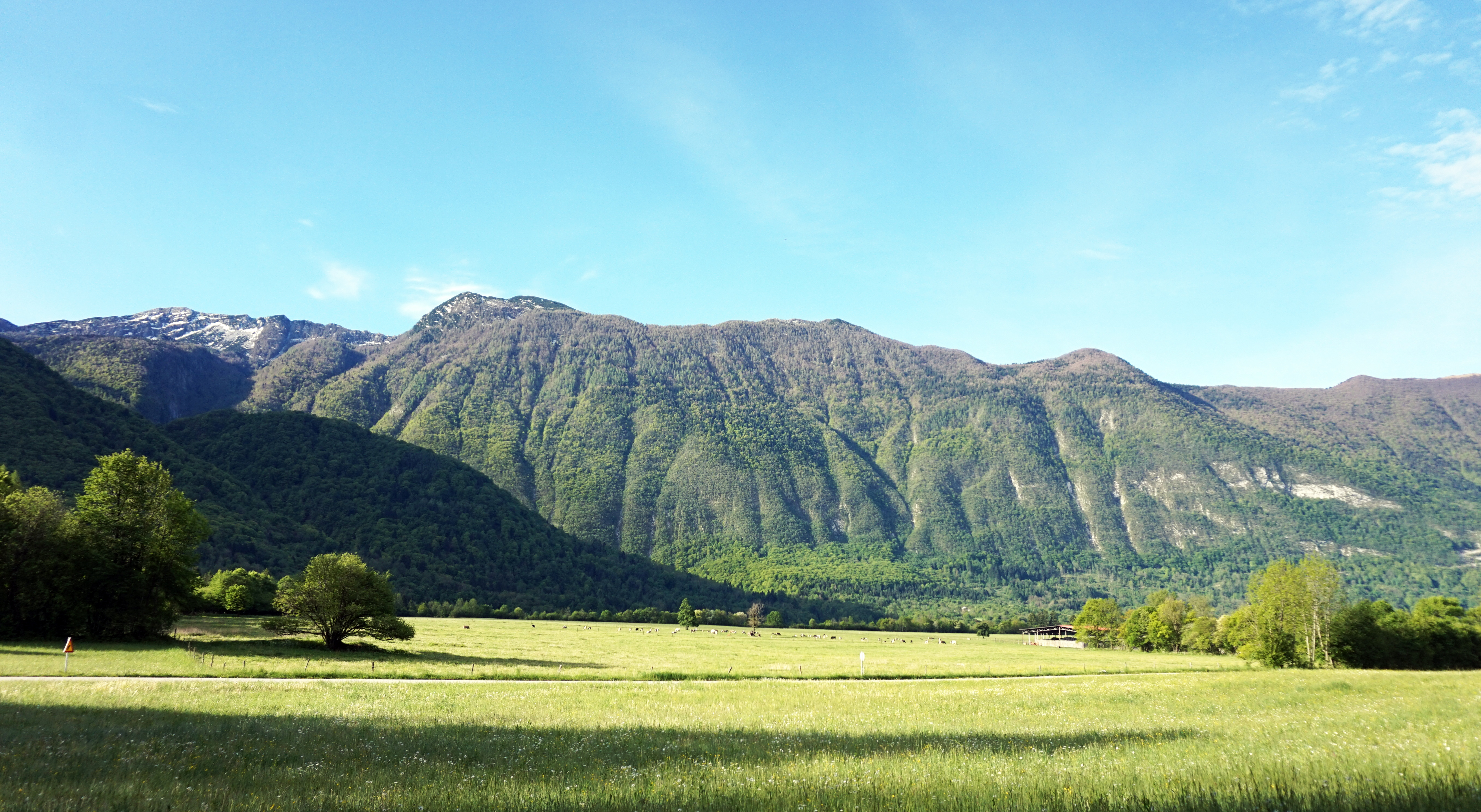 Polovnik mountain ridge in Slovenia, view from Bovec.This photograph was taken with a Sony ILCE-5000